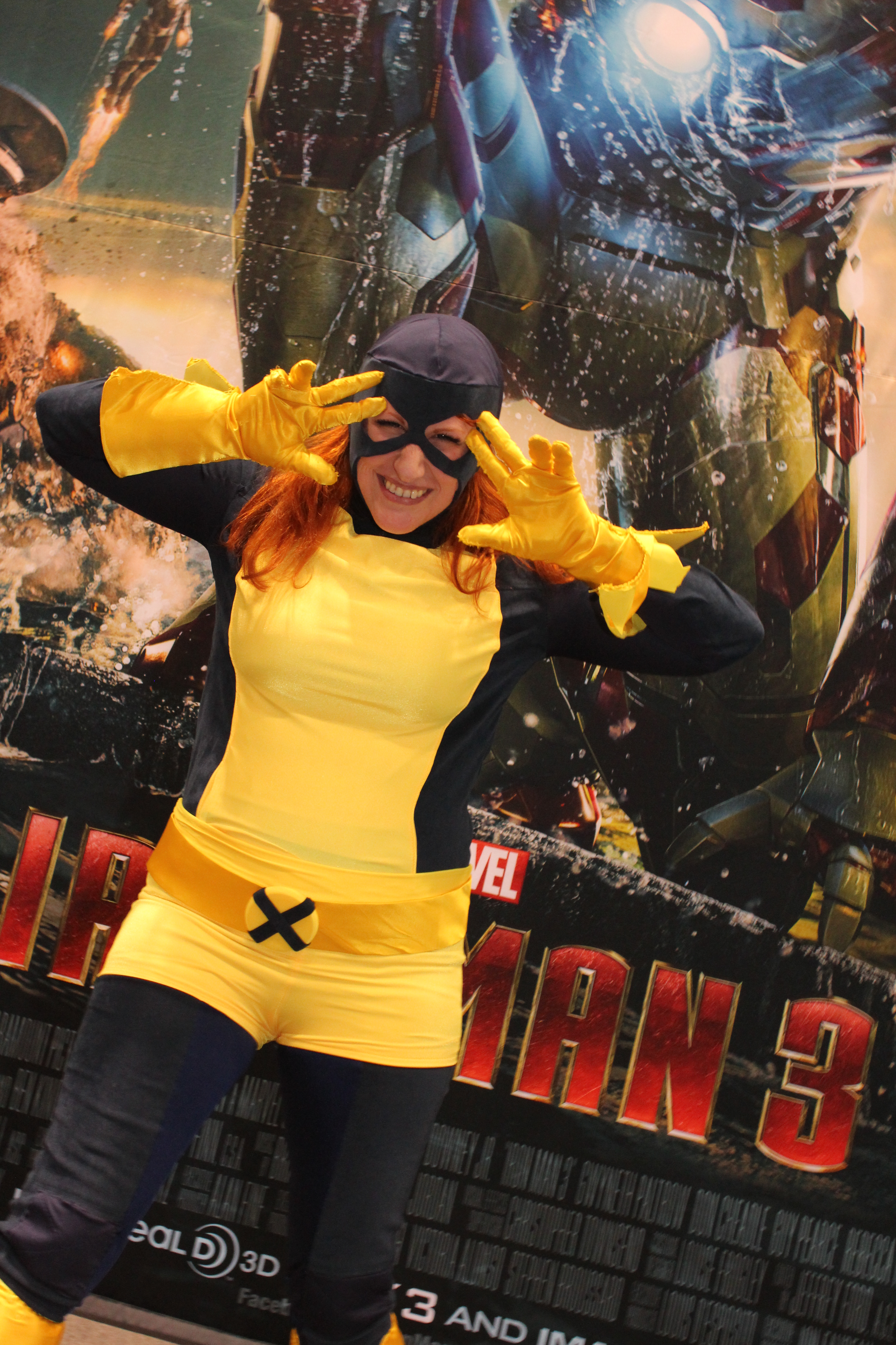 Cosplay at the 2013 Chicago Comic & Entertainment Expo (C2E2).